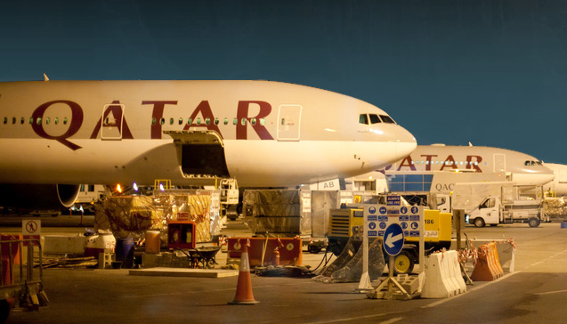 Doha airport is served exclusively by bus gates. A new airport is under construction, scheduled to open 2011.